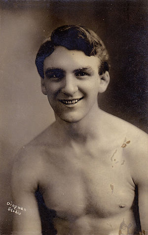 Freddie Welsh (1886-1927), Lightweight boxing champion of the World.